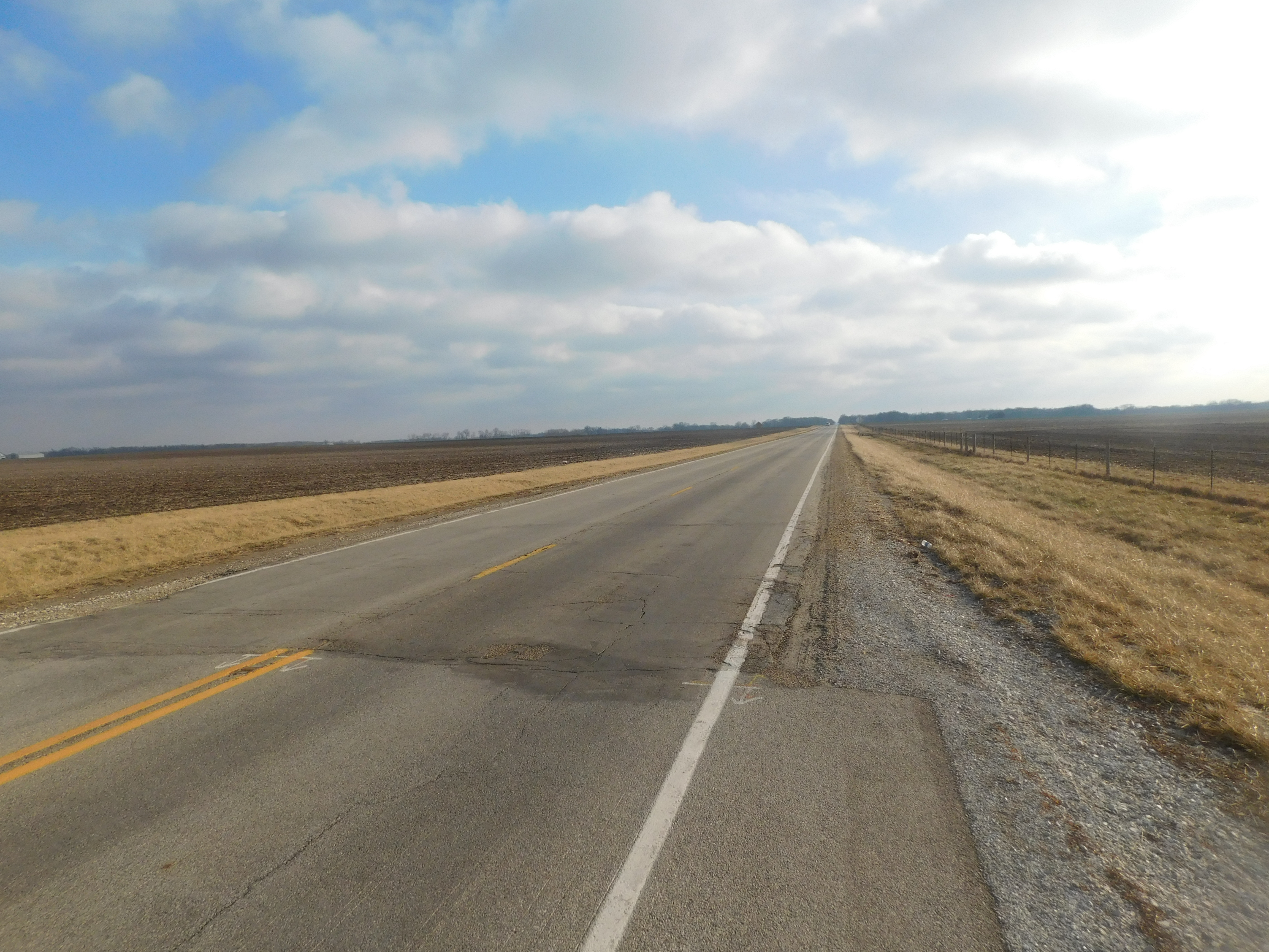 IL 61 south of the junction with US 136 in McDonough County, Illinois.